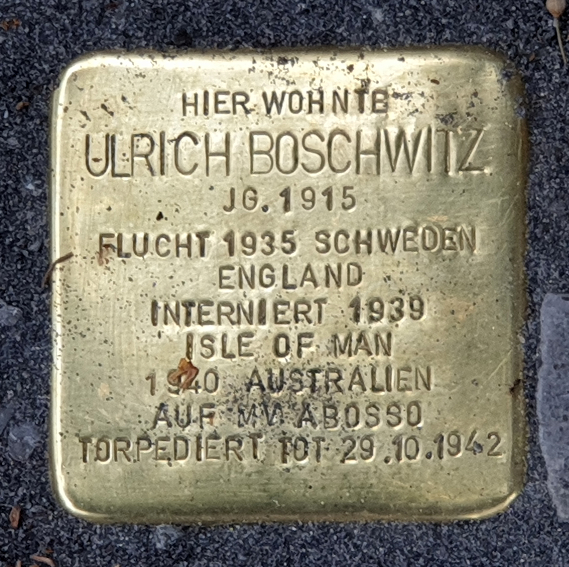 "Stolperstein" (stumbling block), Ulrich A. Boschwitz, Hohenzollerndamm 81, Berlin-Schmargendorf, Germany